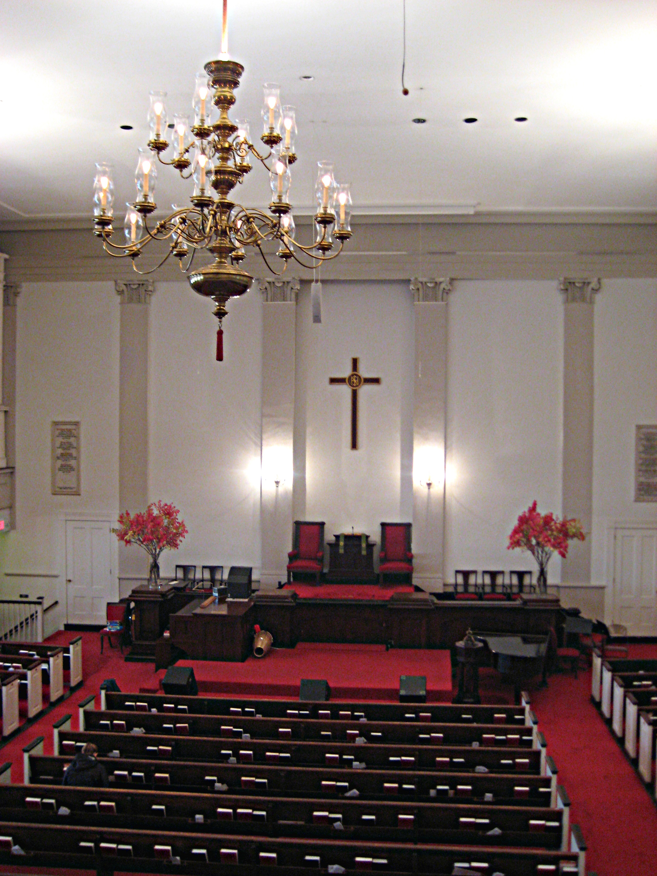 Interior of Park Street Church in Boston, United States.